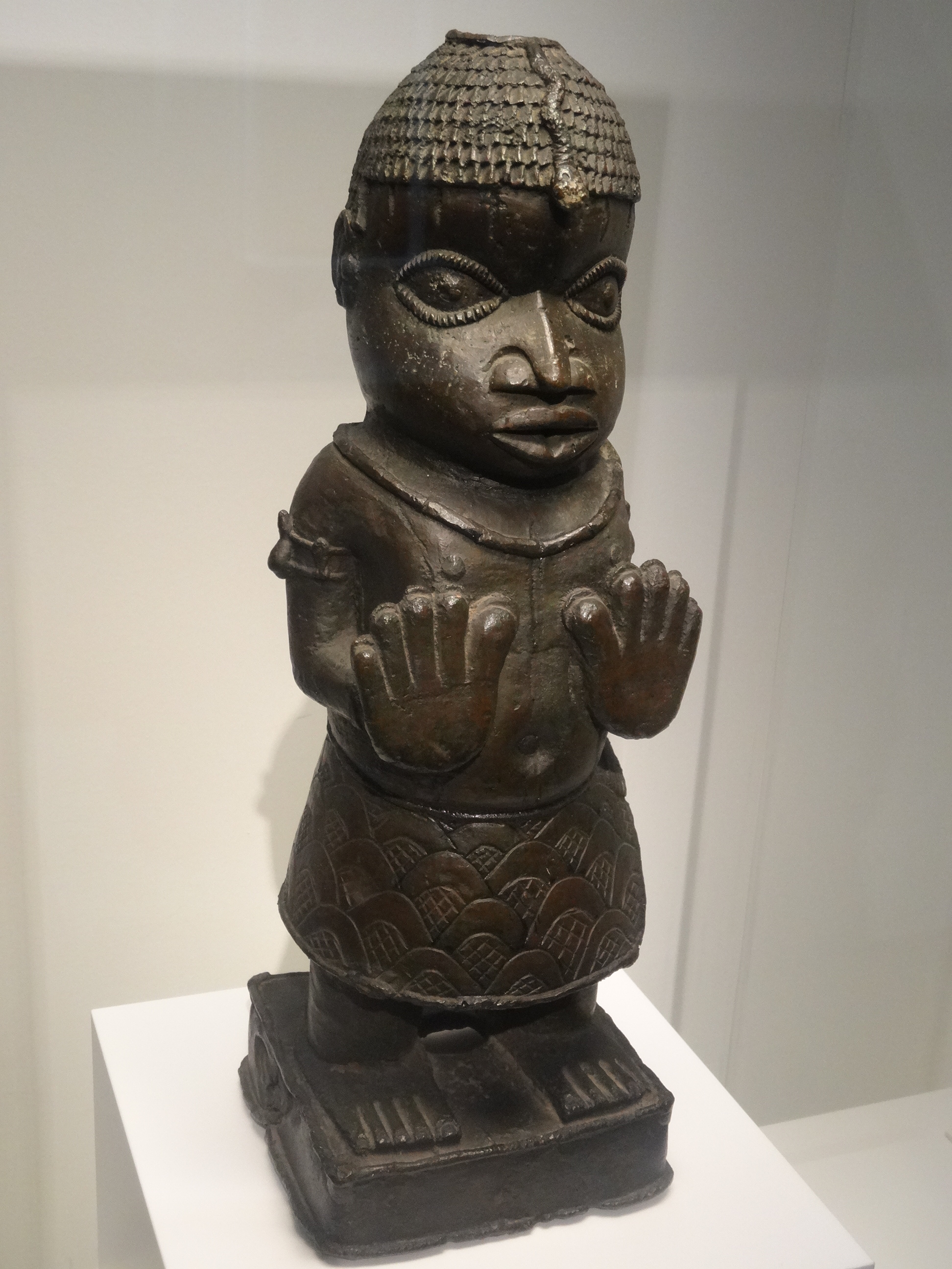 Museu de Cultures del Món, Barcelona.